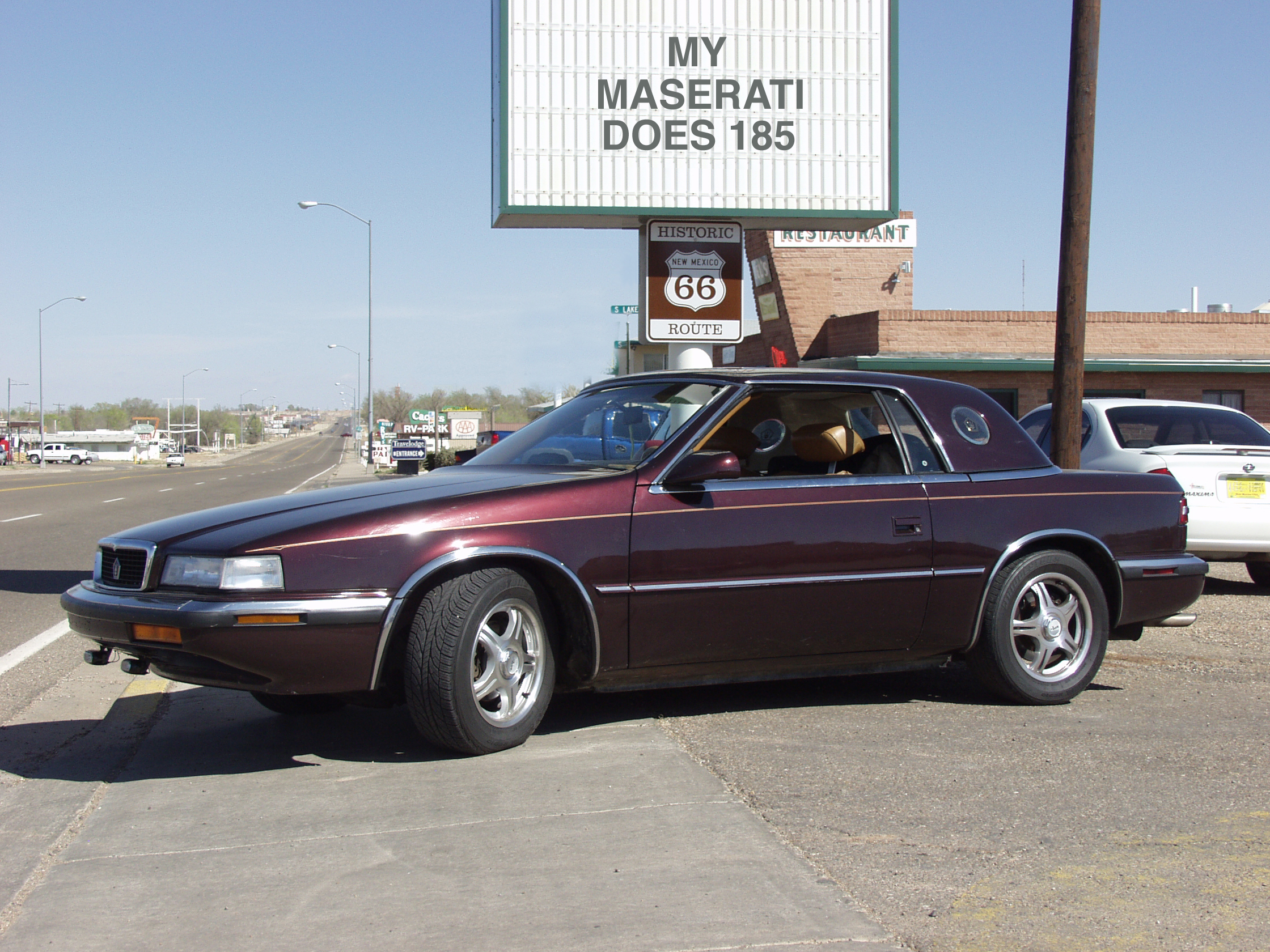 author/photographer: Jeffrey Backes This is a photograph of a Chrysler TC that I own.